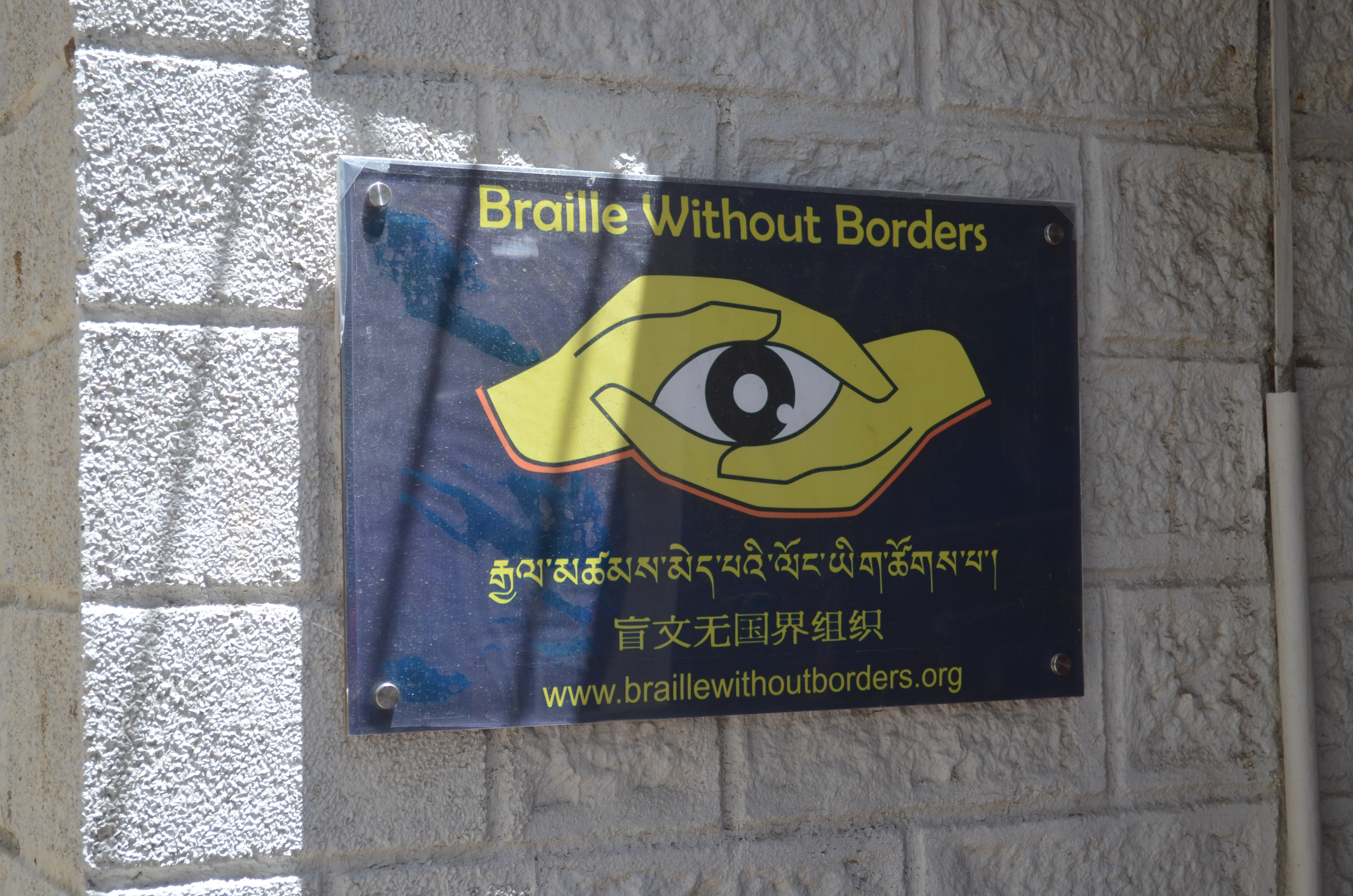 Braille without borders sign, Lhasa.